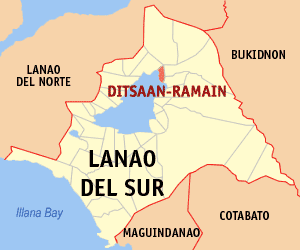 Map of the Lanao del Sur showing the location of Ditsaan-Ramain